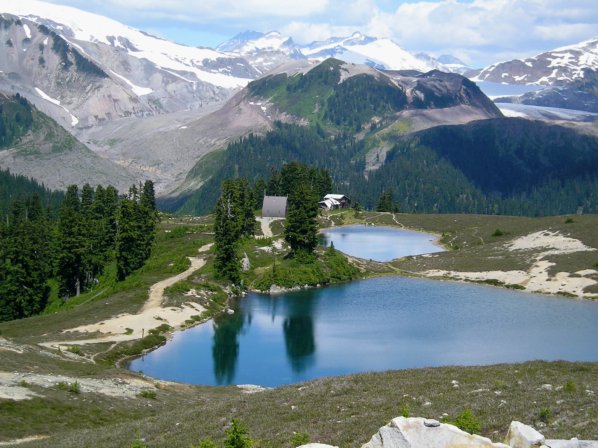 Elfin Lakes, Opal Cone, Garibaldi Provincial Park, British Columbia, Canada.